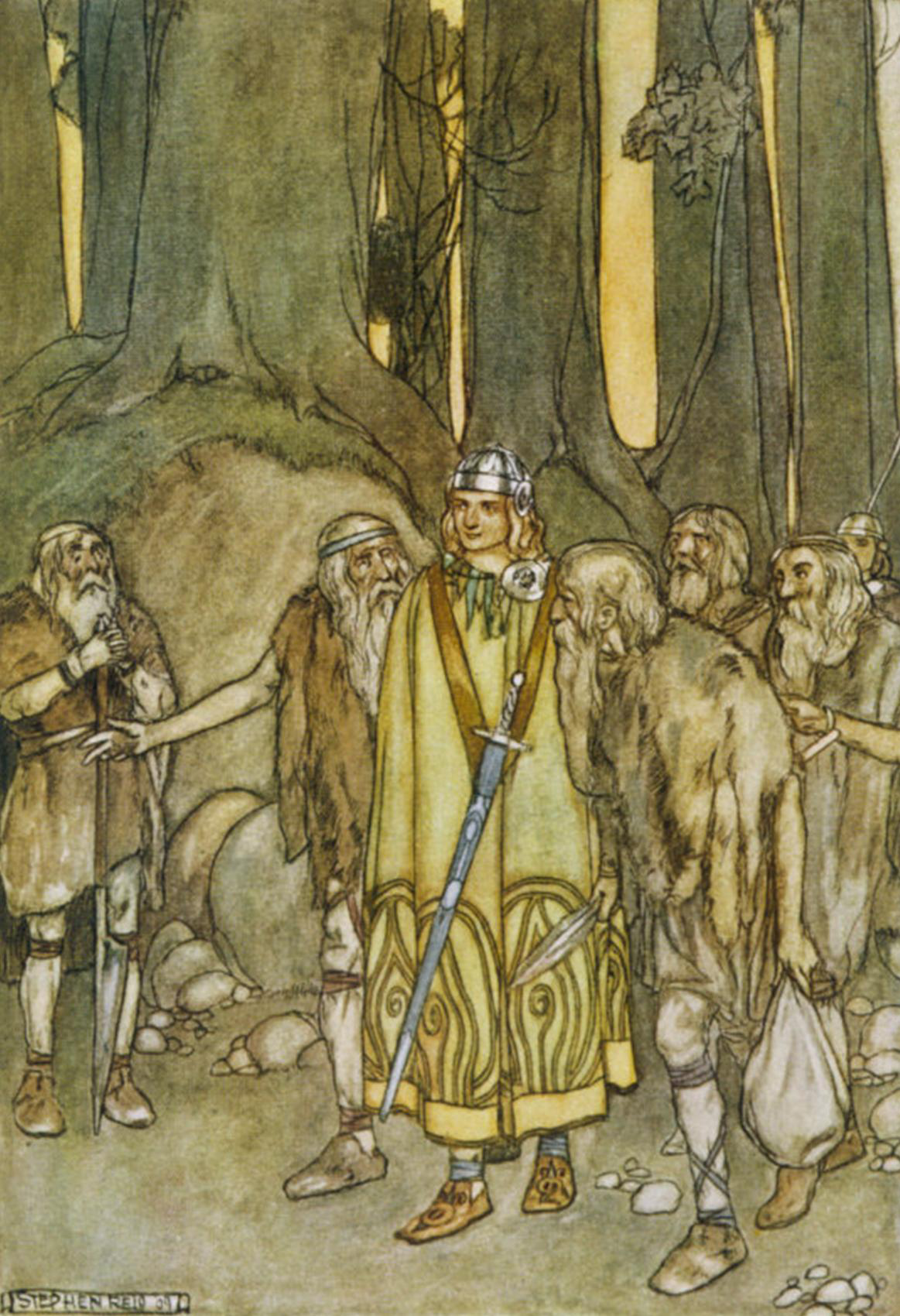 Finn Mccool Comes to Aid the Fianna